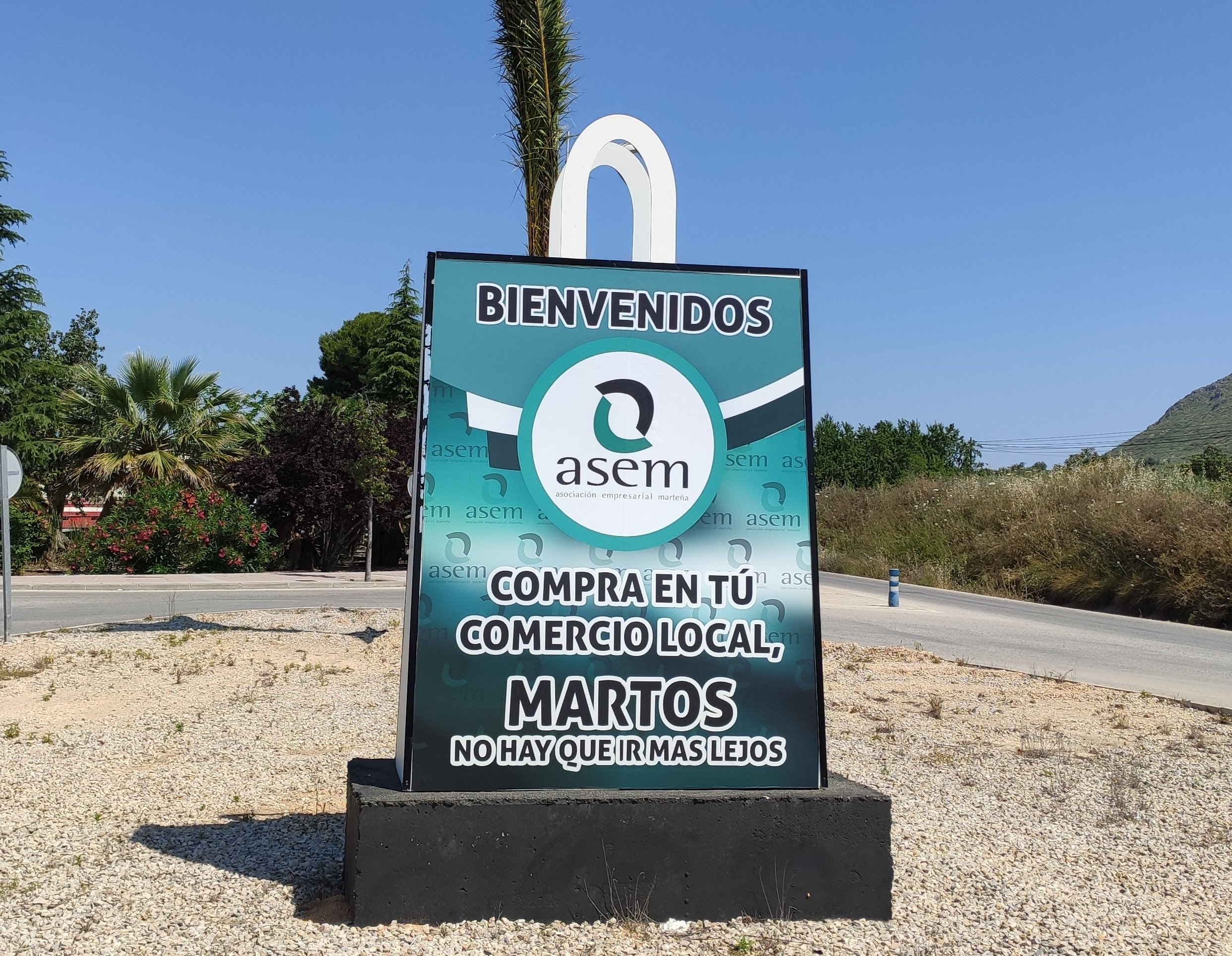 Logo sculpture of the Martos business assotiation in Martos, Jaén (Spain).